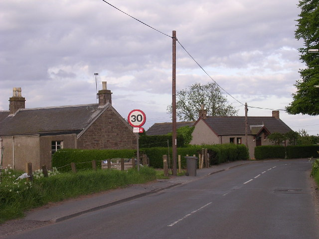 Clayholes. This little hamlet north of Carnoustie is viewed here approaching it on the minor road from the north west.